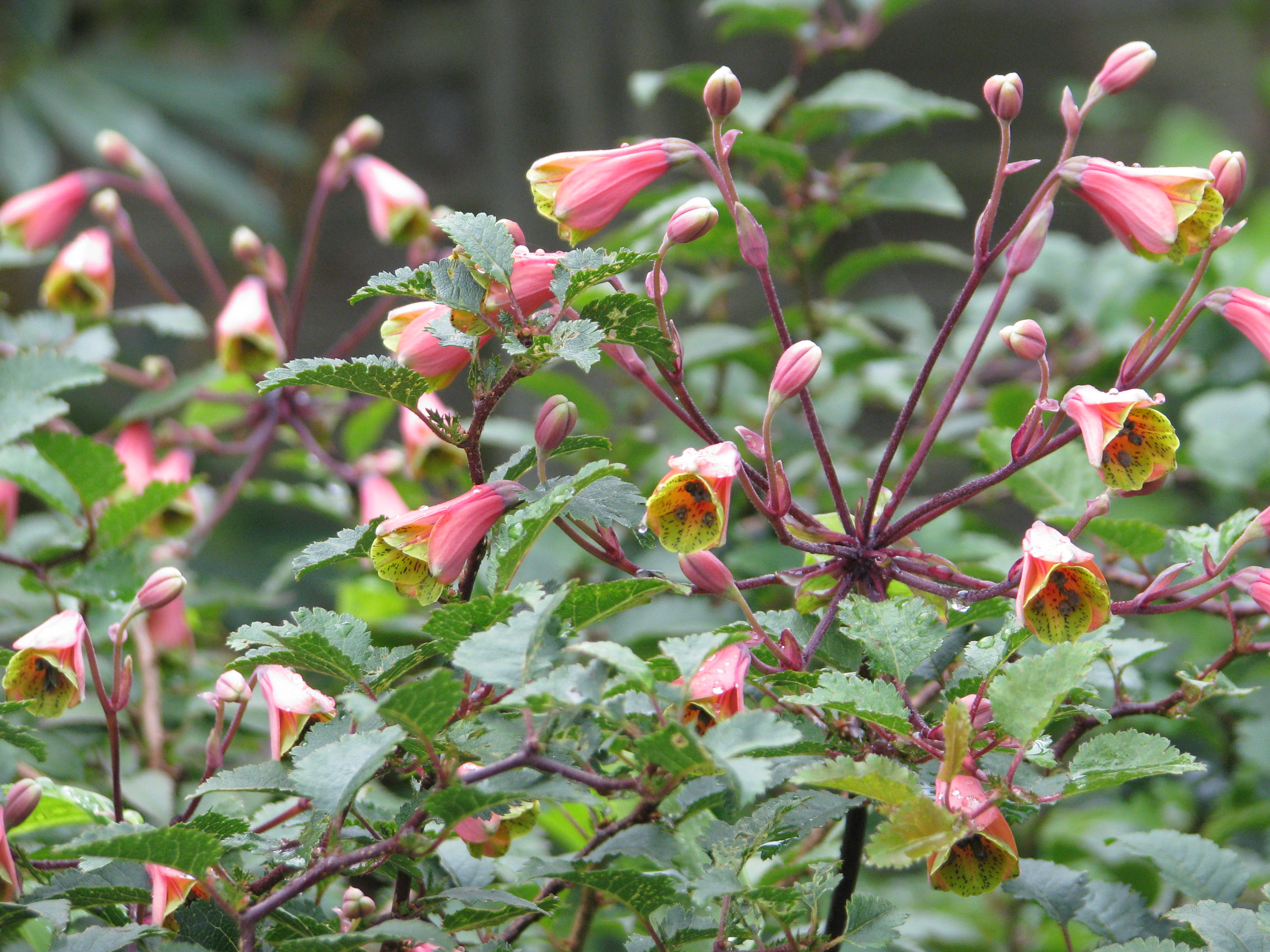 Also very good this year. I've got a lot of seedlings from last year on the nursery too.